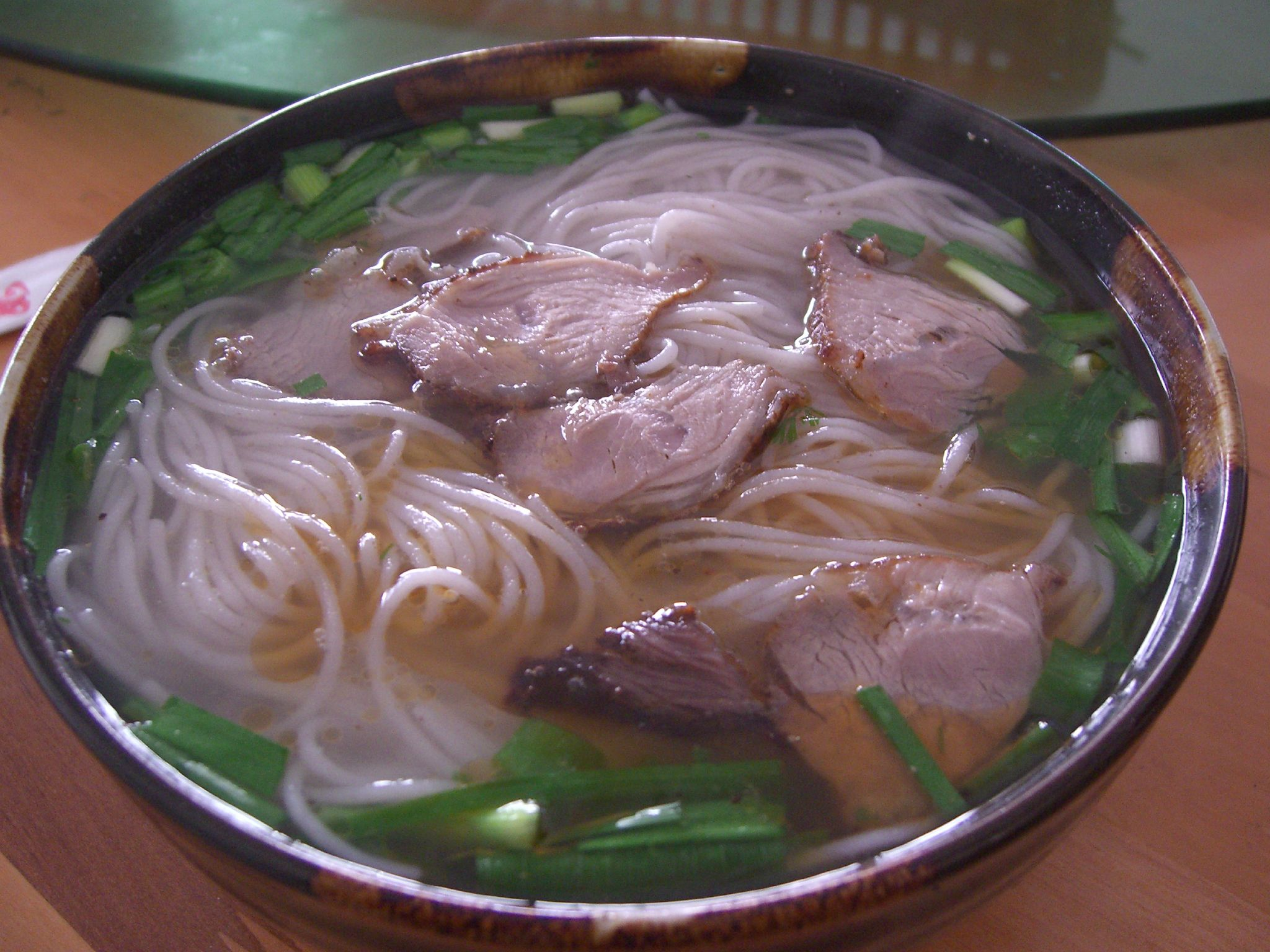 Mixian - spaghetti-shaped noodles served in a pork broth, topped with sliced pork, coriander and chives